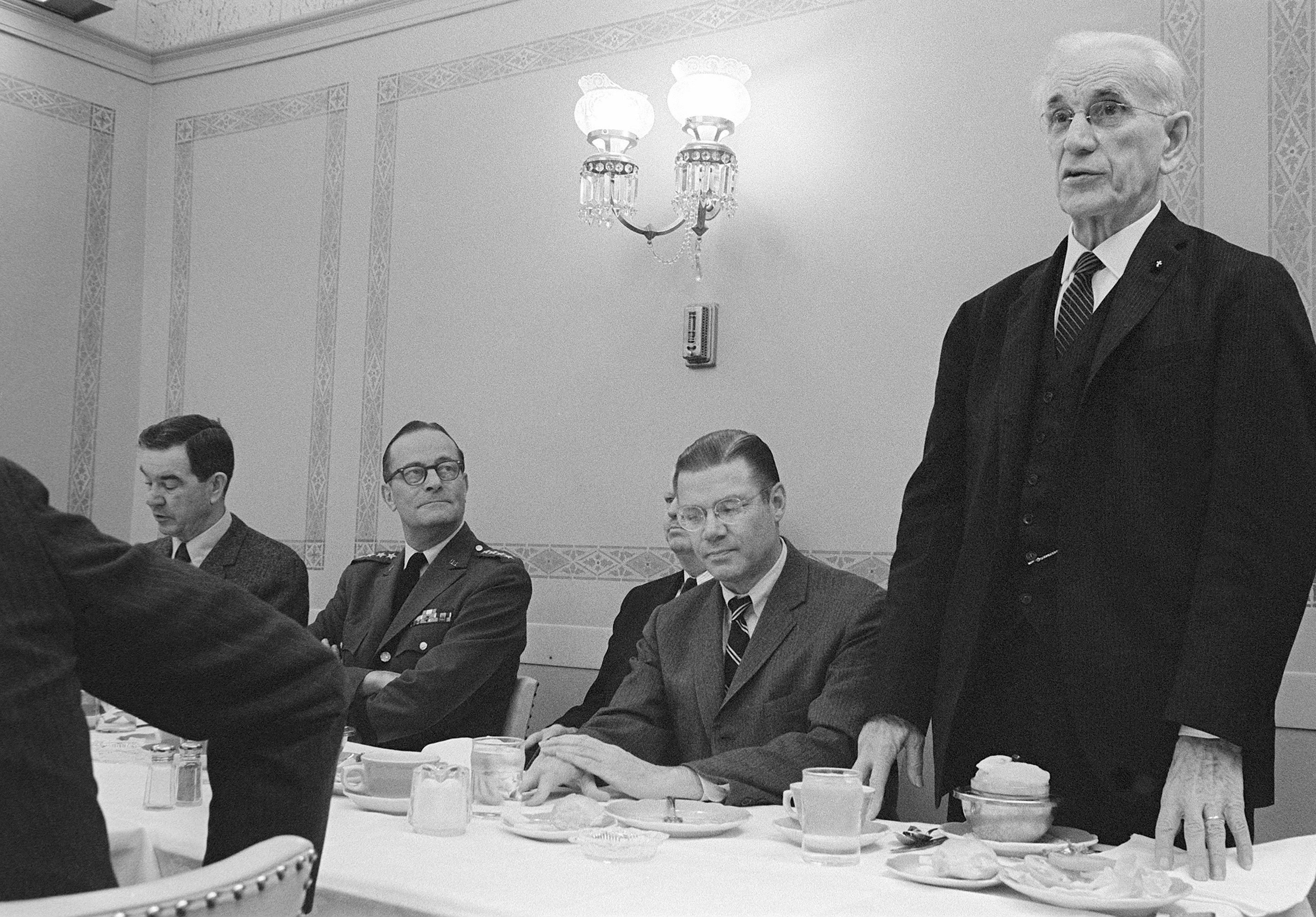 "Speaker of the House John W. McCormack (D-Massachusetts) (standing), addresses those attending a luncheon at the US Capitol honoring top Department of Defense executives. Left to right are Congressman George H. Mahon (D-Texas), committee chairman of the US House of Representatives Appropriations Committee; General (GEN) Earle G. Wheeler, Chairman, US Army Joint Chiefs of Staff; Secretary of Defense Robert S. McNamara and Congressman McCormack."